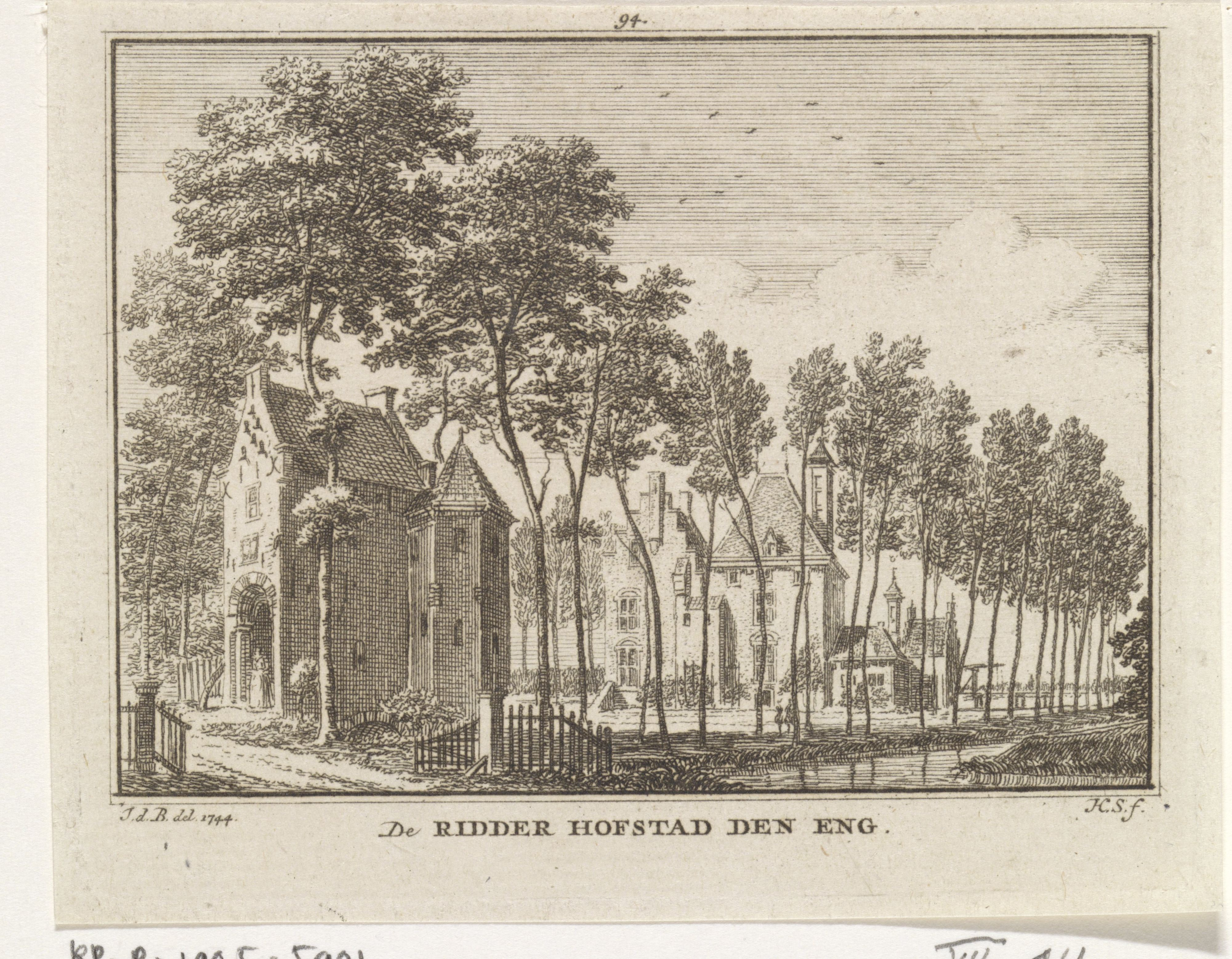 Jan de Beijer - Hendrik Spilman - View of castle Den Engh, Vleuten - 1773